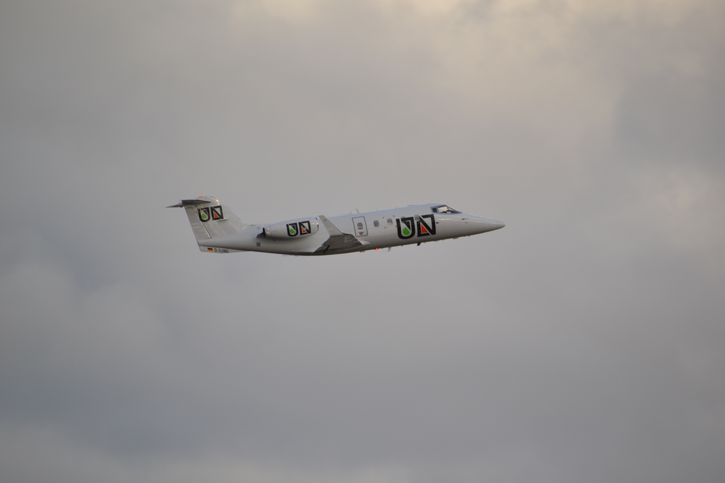 Learjet 55 of FAI Rent-a-Jet with additional UN motifs departing Birmingham-BHX, 04/02/14.